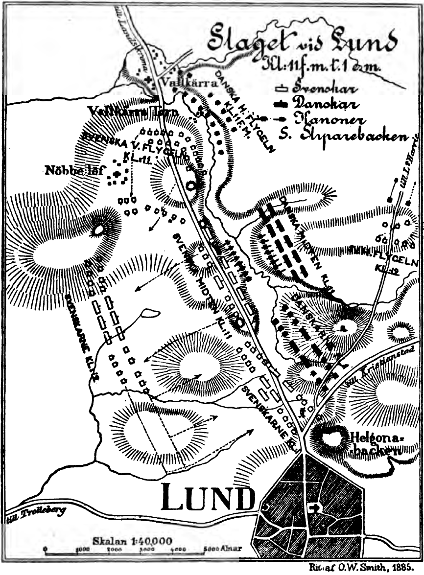 Battle of Lund, 1676, during the Scanian War